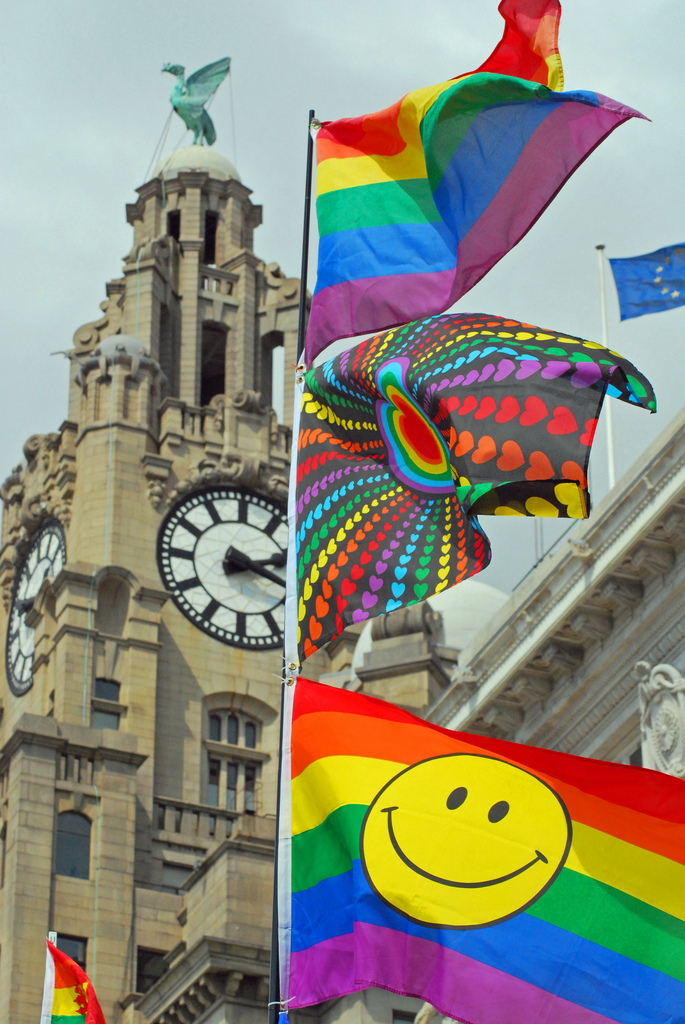 Liverpool Pride 2011 at Pier Head showing the Royal Liver Building in the background.